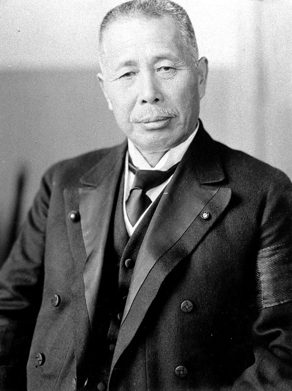 Portrait of Tanaka Giichi (田中義一, 1864 – 1929)